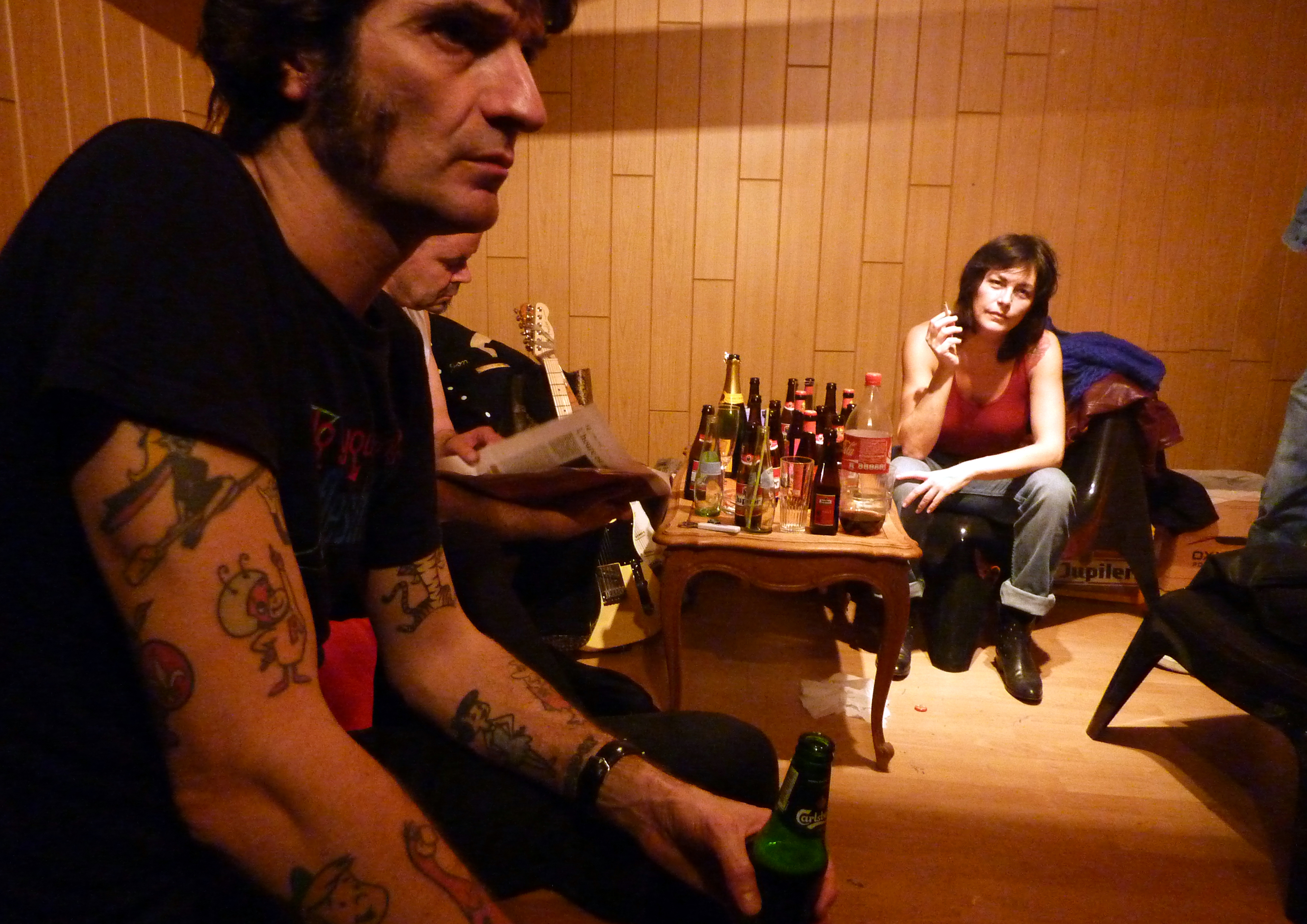 Lio after a show with his band Phantom at Le Salon, Silly (B), november 14, 2009.